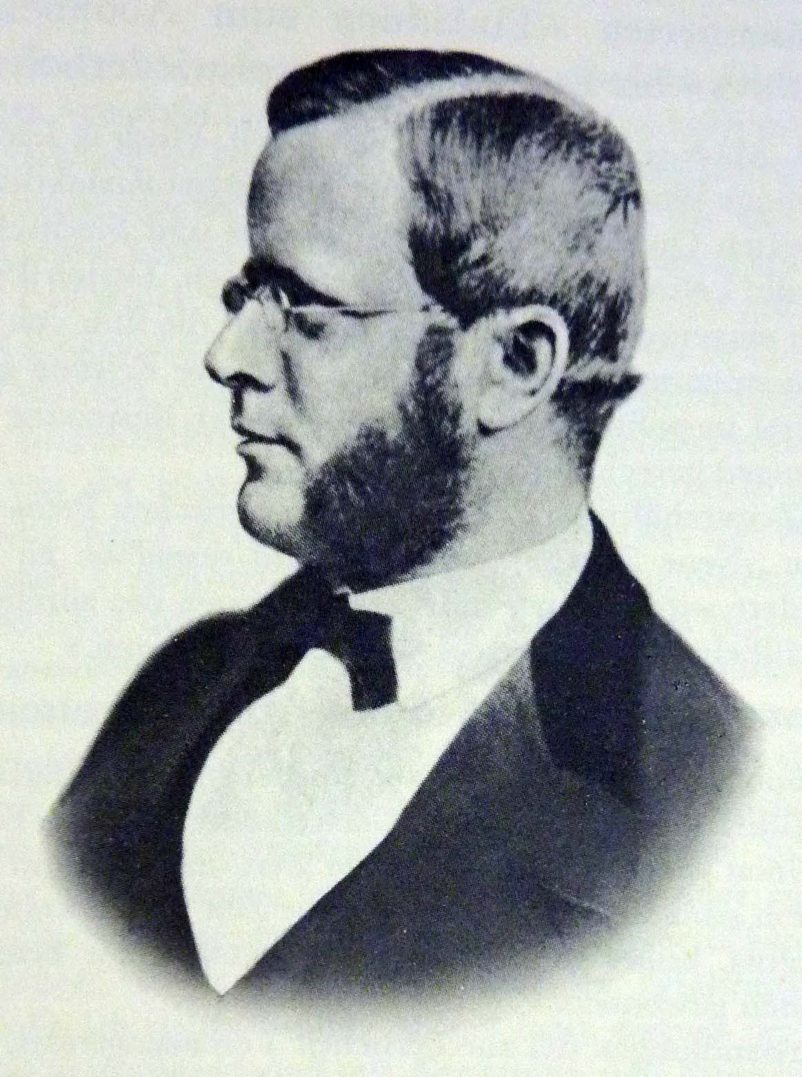 Portrait of the former publisher of the Swiss newspaper NZZ Eugen Escher